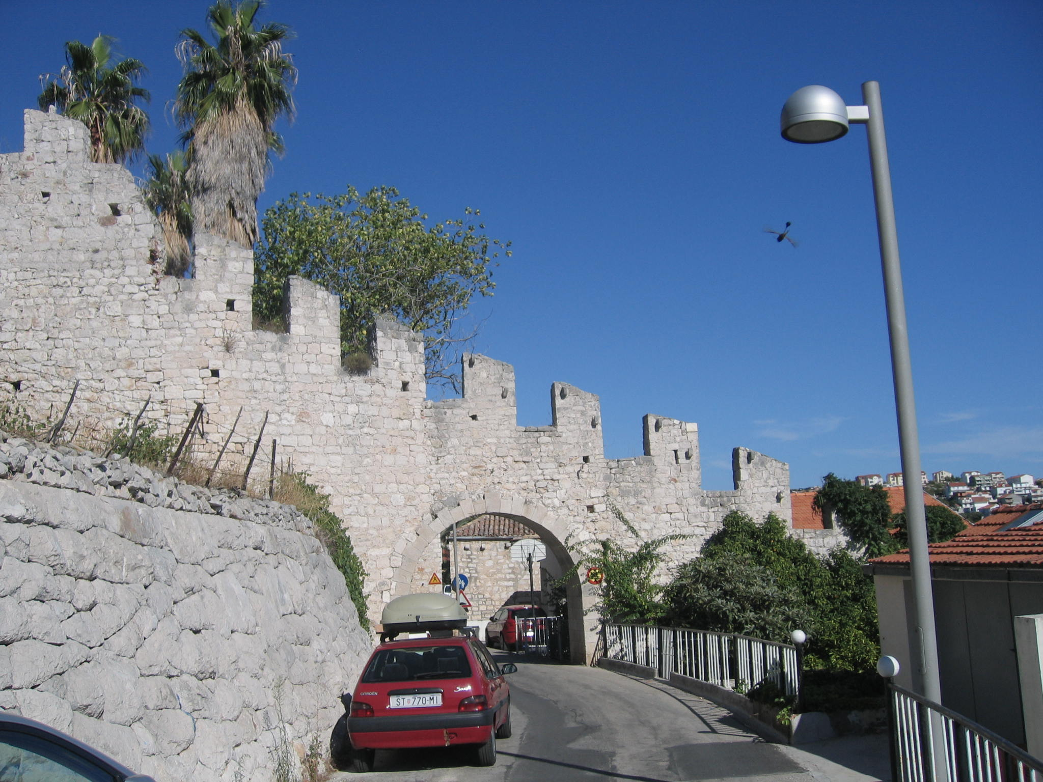 One of four city gates of the City Walls of Hvar in Croatia.